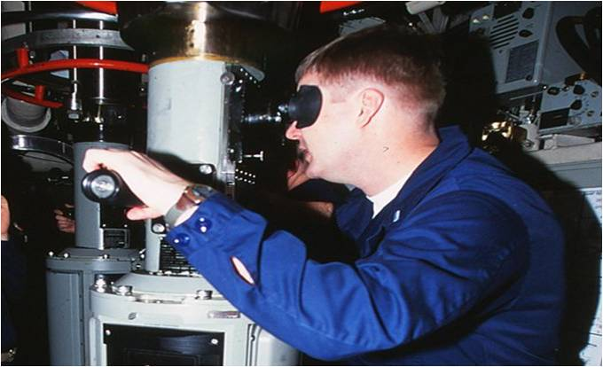 Periscope Observation